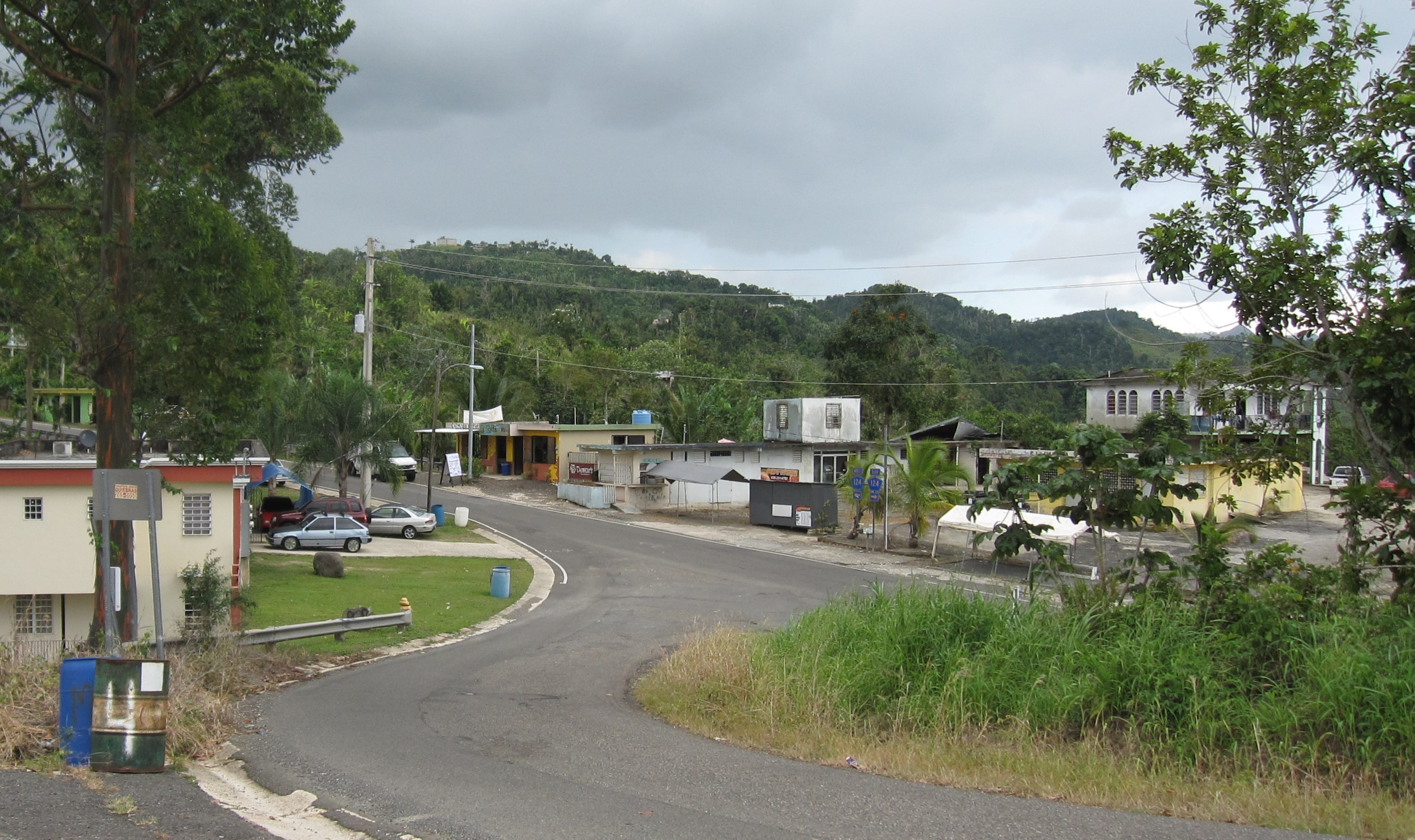 Intersection of Puerto Rico Highway 124, coming from PR-436